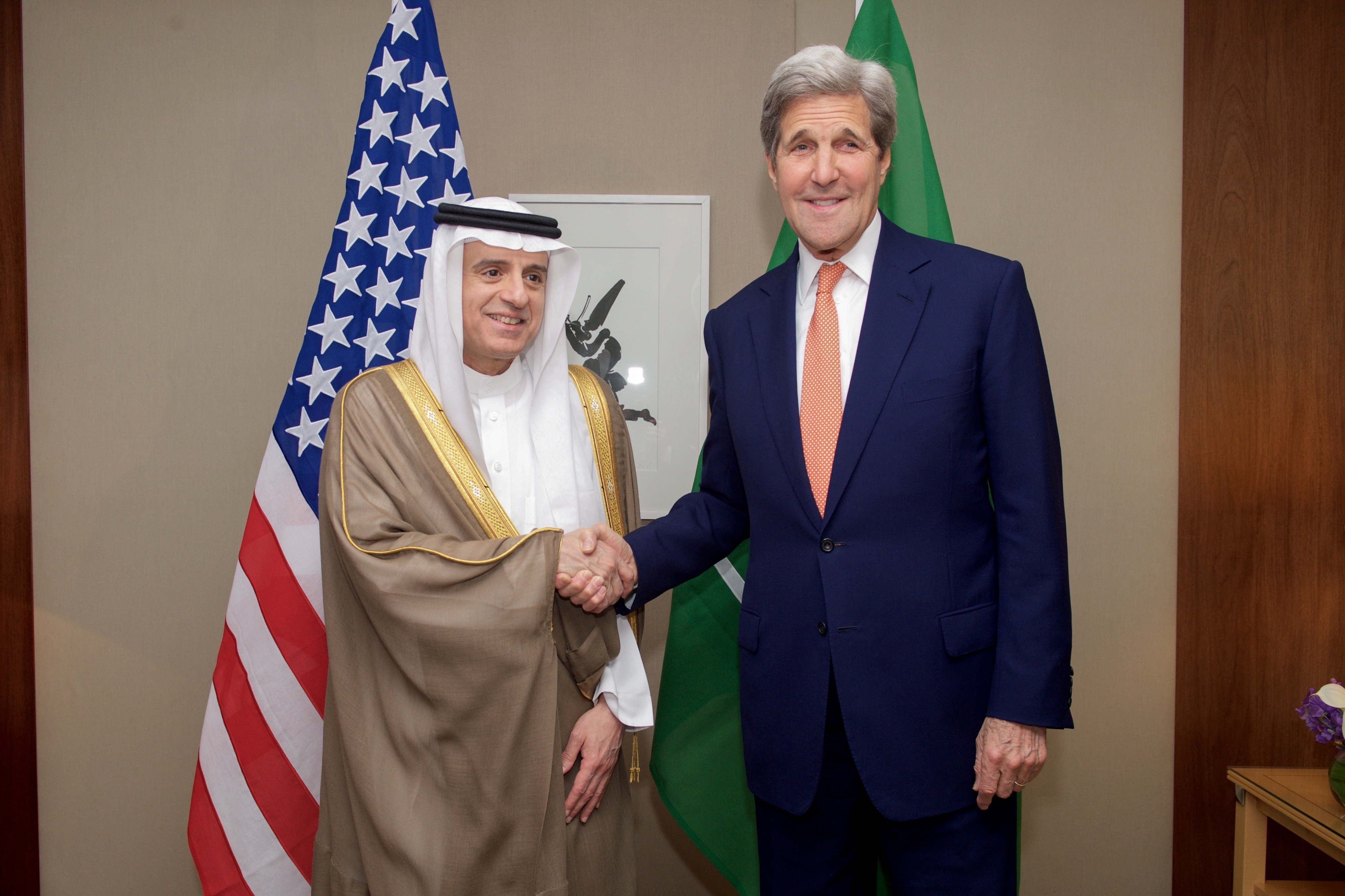 U.S. Secretary of State John Kerry shakes hands with Saudi Foreign Minister Adel al-Jubeir at the Hotel President Wilson in Geneva, Switzerland, on May 2, 2016, amid a series of meetings focused on the cessation of hostilities in Syria. [State Department photo/ Public Domain]